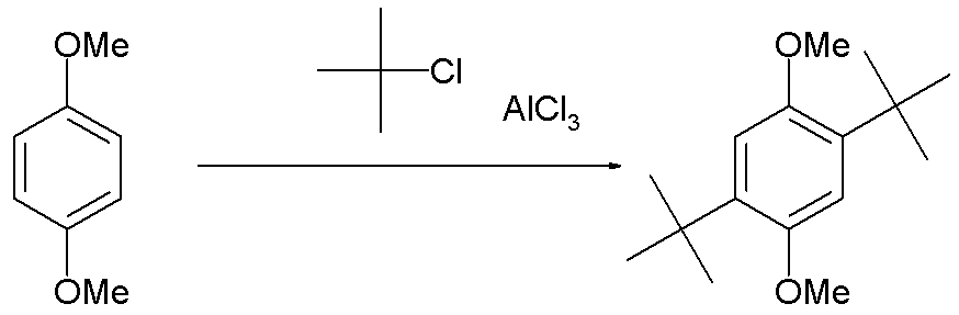 Example of steric protection in Friedel-Crafts alkylation